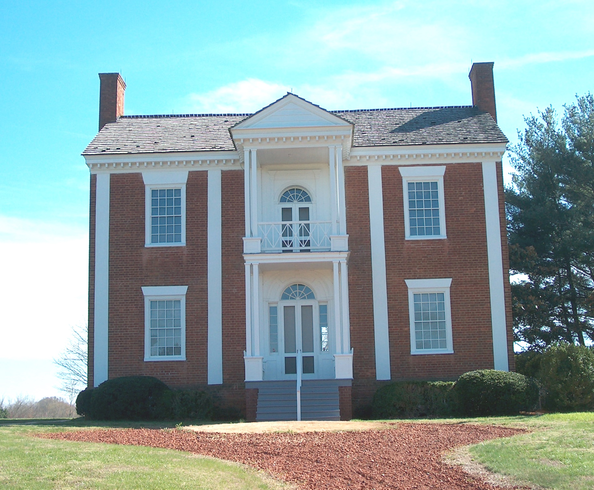 Chief Vann House, once owned by James and Joseph Vann before it was retaken during Cherokee removal. Photo was taken by Cculber007, Chief Vann House Historic Site